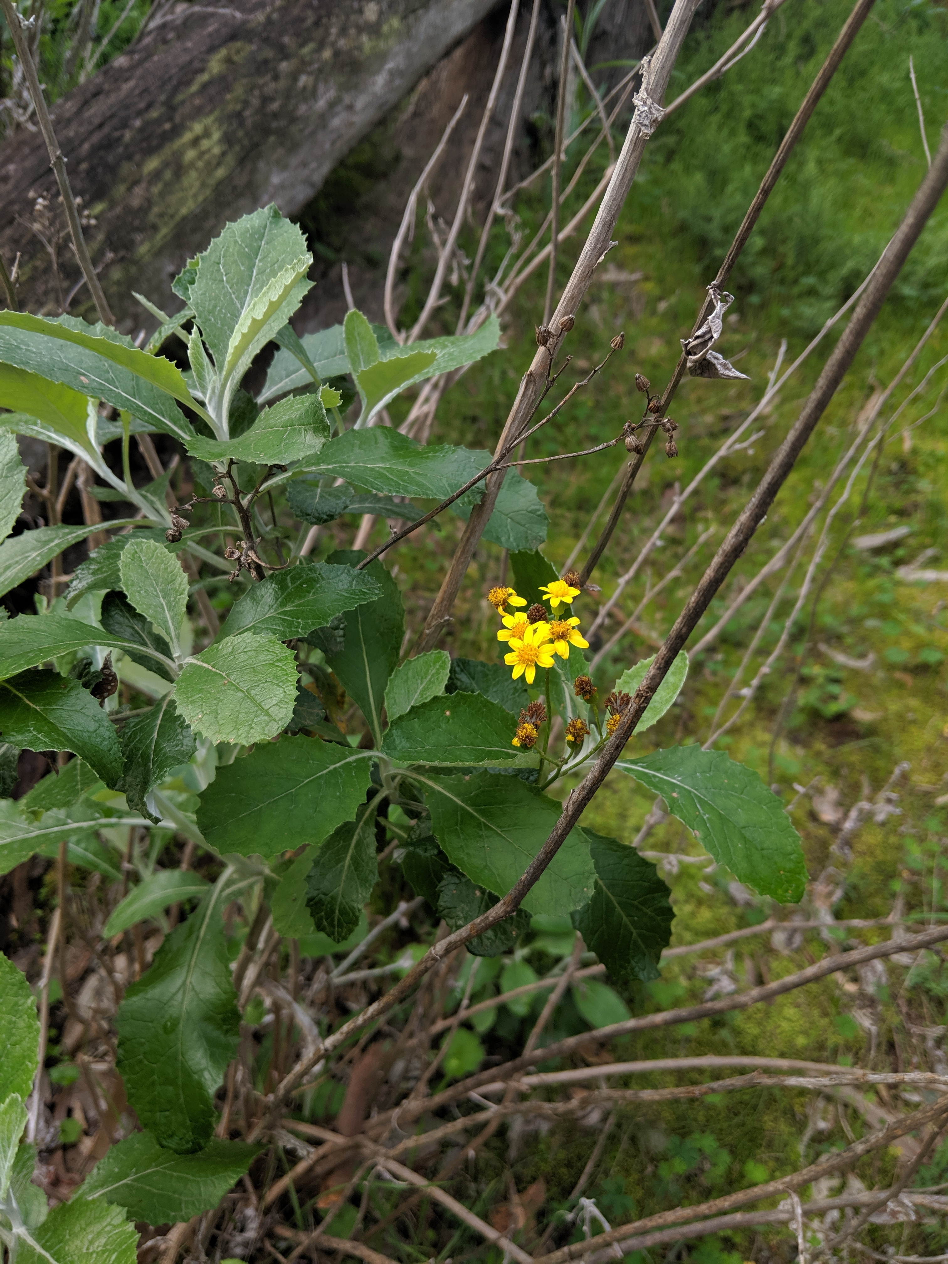 Flowering Woolly Ragwort (Senecio_garlandii), at the base of Table Top Mountain, north of Albury, NSW, Australia.